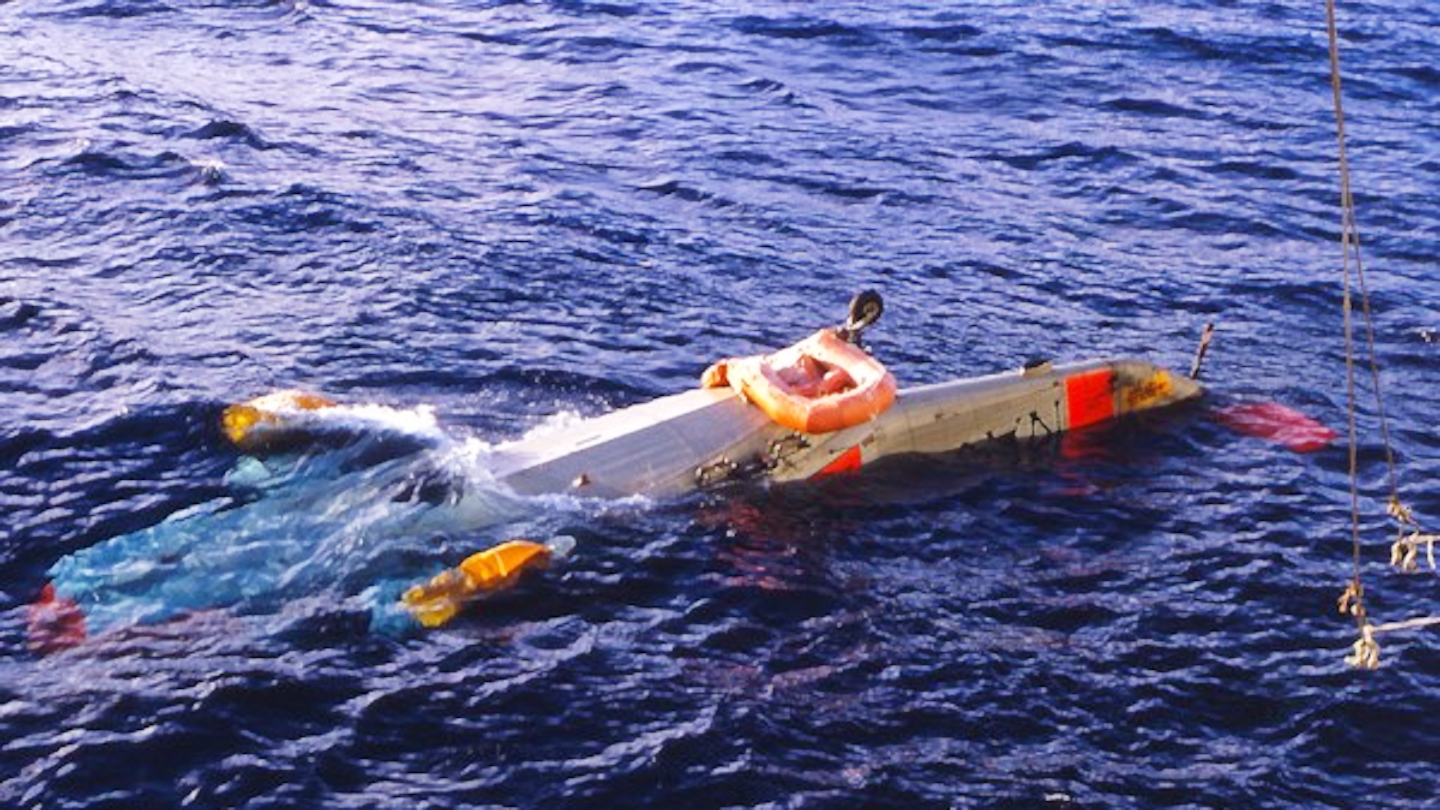 HMCS Bonaventure's downed CH-124 Sea King in Feb 1968. All crew was rescued and the helicopter was recovered (note the Bonnie's crane wires at the photo's right). It took 3 or 4 divers, along with the crane of course, about 4 hours to attach the wires to the Sea King's upper parts, turn the helicopter over and hoist it onto the flight deck. It was dark for the latter part of the procedure.